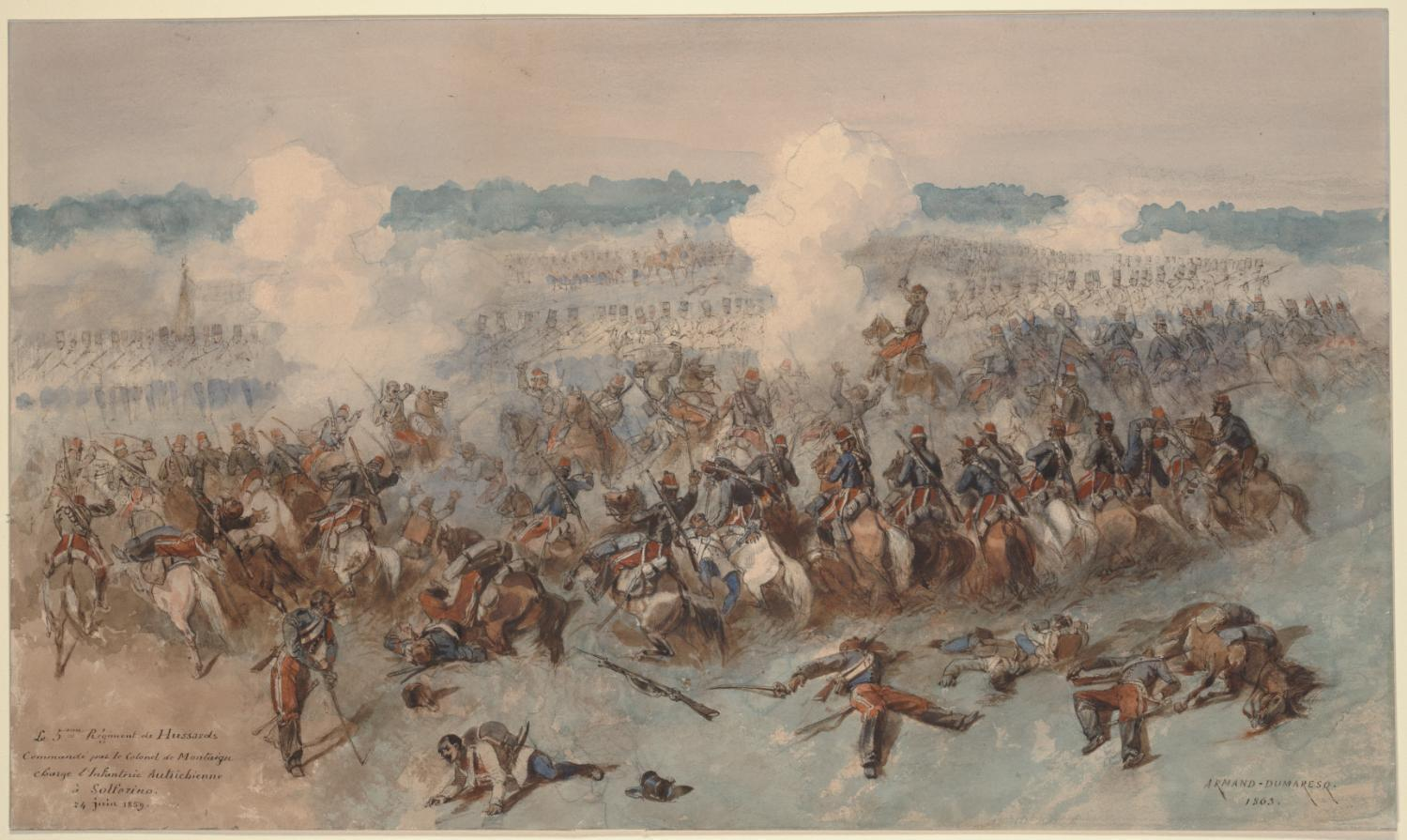 The charge of the 5th French Hussars Regiment at the Battle of Solferino, June 24, 1859.